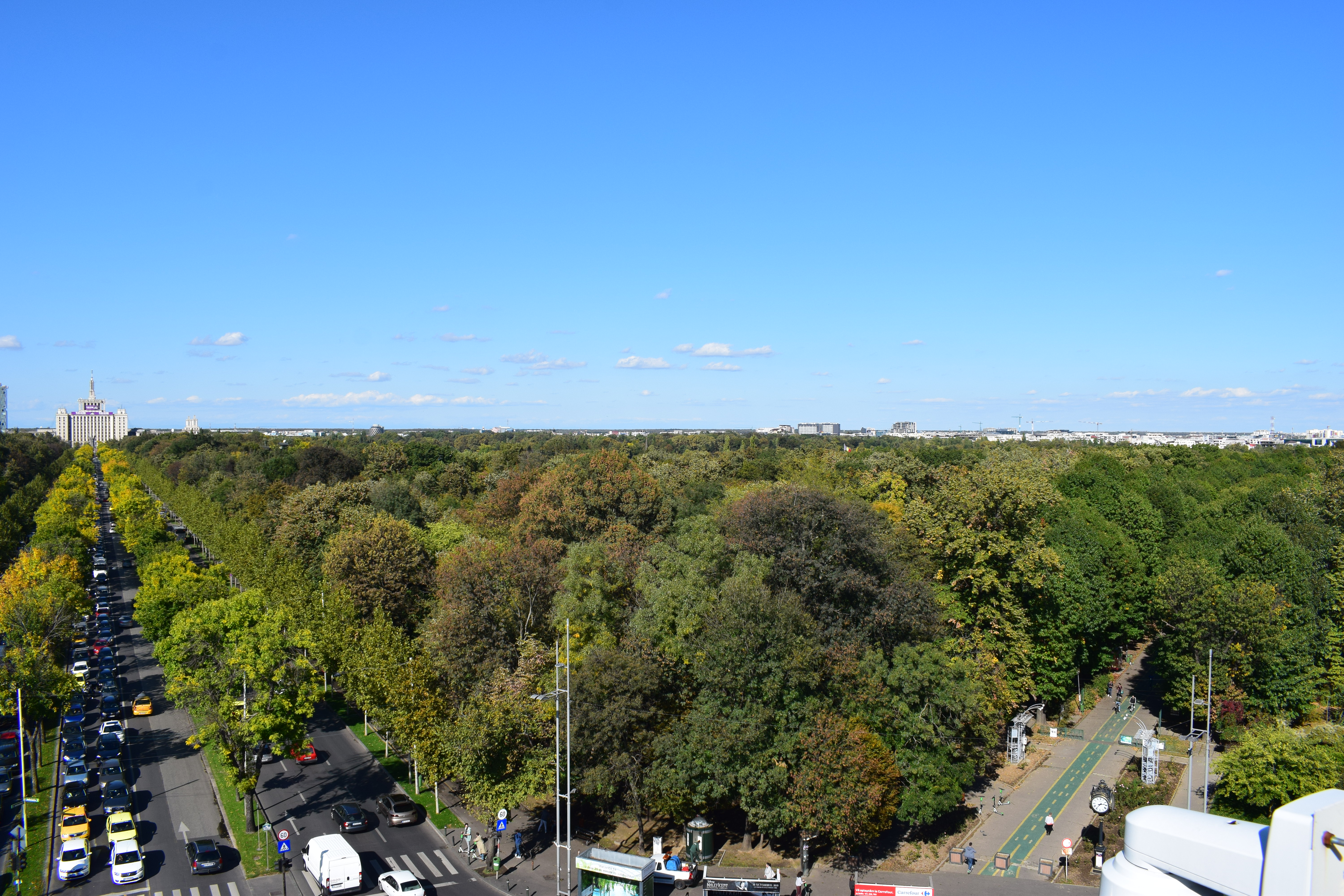 A general view of "King Mihai I" Boulevard in Bucharest and the section of "King Mihai I" Park where Elisabeta Palace (the Royal residence) is. Picture taken from the roof of the Triumphal Arch in Bucharest.